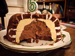 ice cream cake